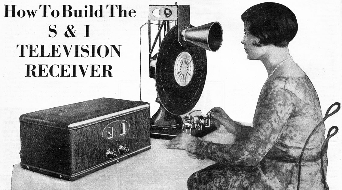 A woman watching an early homemade experimental mechanical television receiver in 1928, from Hugo Gernsback's magazine Science and Invention. During the 1920s some radio stations began broadcasting experimental television programs, which could be viewed by mechanical "televisor" receivers like this one. The video signal from the receiver (left) is applied to a neon lamp in the viewer (right). In front of the lamp a metal disk with holes rotates, creating the scan lines of the image. This created a dim monochrome orange image 1.5 inches (4 cm) square with 48 scan lines at 7.5 frames per second, visible within the viewing cone, which the woman is watching. These mechanical-scan television technologies never achieved images of sufficiently high quality to catch on with the public, and were superseded by electronic scan television broadcasts in the 1930s. Page scans of the above article How to build the S&I Television Receiver on Commons: Image:Science and Invention Nov 1928 Cover 2.jpg Image:Science and Invention Nov 1928 pg578.png Image:Science and Invention Nov 1928 pg618.png This photo cropped from page 618. Image:Science and Invention Nov 1928 pg619.png Image:Science and Invention Nov 1928 pg620.png Image:Science and Invention Nov 1928 pg632.png Image:Science and Invention Nov 1928 pg634.png Image:Science and Invention Nov 1928 pg636.png The page numbers were on an annual basis, not per issue. This issue had pages 577 to 672. The magazine is 8.5 by 11.5 inches.